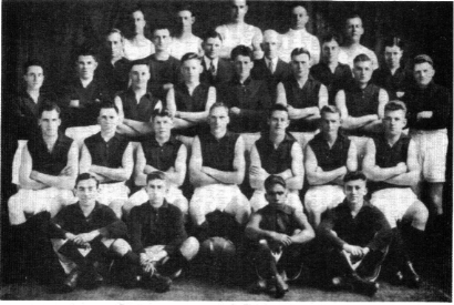 1929 Northcote Football Club premiers